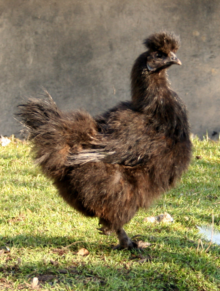 silkie one of chicken breeds